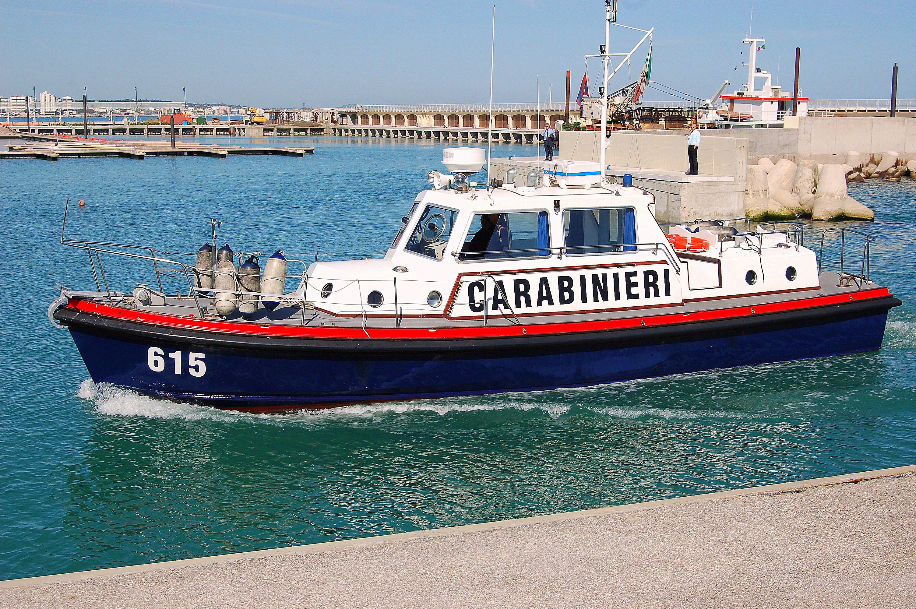 The unit,that replaces the 500 class coastal patrol boat,has much higher performance and characteristics: with a crew of 5 military is over 12 meters long and has a displacement (weight) at full load over 11 tons. Equipped with 2 diesel engines of 240 Hp each, it can reach a top speed of 21 knots with a range of over 22 hours of navigation,the patrol boat seaworthiness can allow,even in non optimal weather conditions,a large scope of intervention in areas and medium range sea patrol.